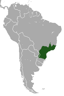 Black Capuchin (Cebus nigritus) range